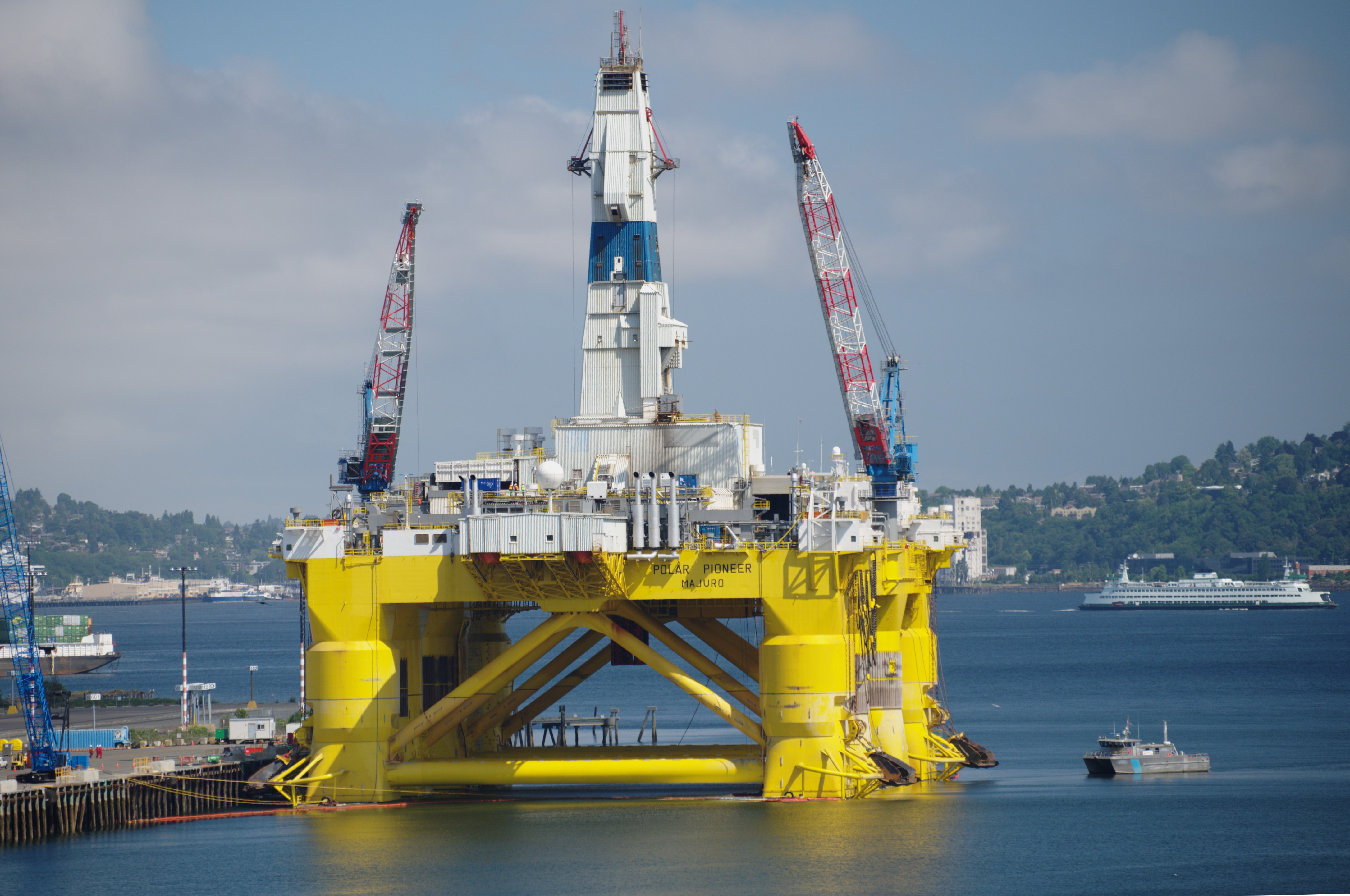 Royal Dutch Shell Polar Pioneer semi-submersible offshore drillship at the Port of Seattle Terminal 5.